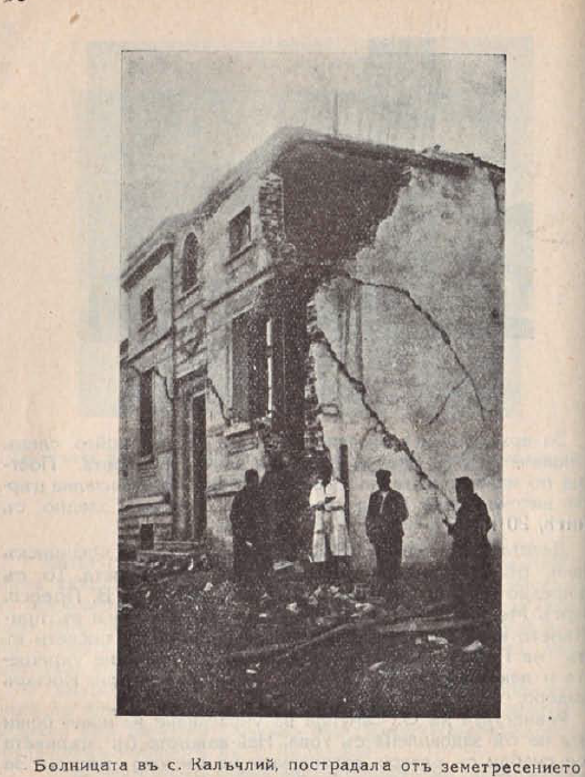 Ruins of catholic hospital Peter Parchevich